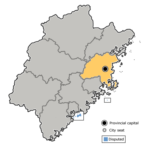 The prefecture-level city of Fuzhou is highlighted on this map of Fujian province, People's Republic of China.